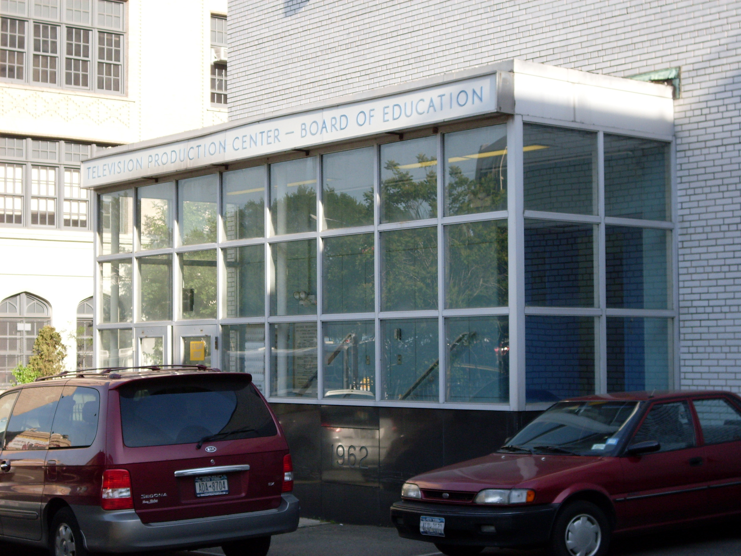 Looking southeast at entrance to the former WNYE-TV studios in downtown Brooklyn, New York. See File:WNYE25towerjeh.JPG for contemporary transmitter tower.